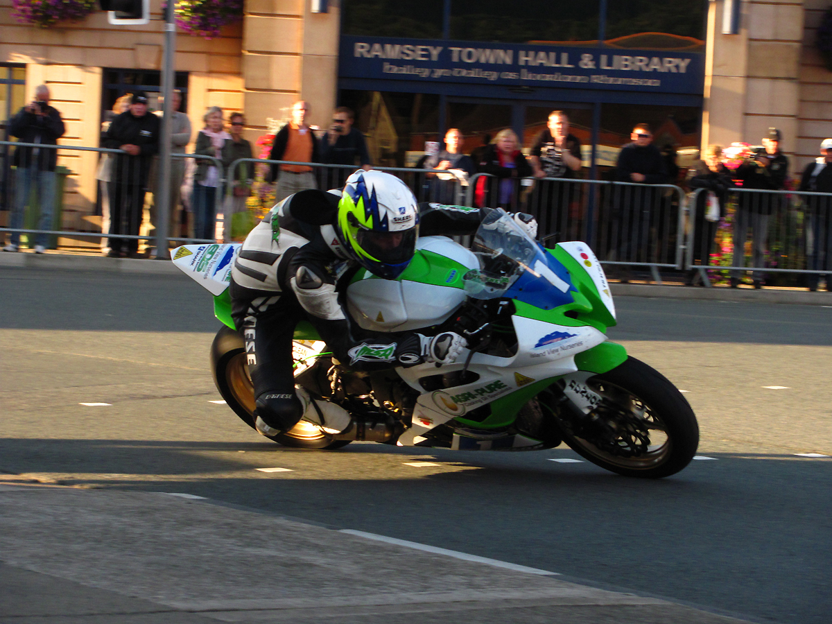 Description : Wednesday Evening Practice 24th Aug 2011 Manx Grand Prix Date : 24th Aug 2011 Source :Agljones at en.wikipedia Author Agljones at en.wikipedia Permission See below.